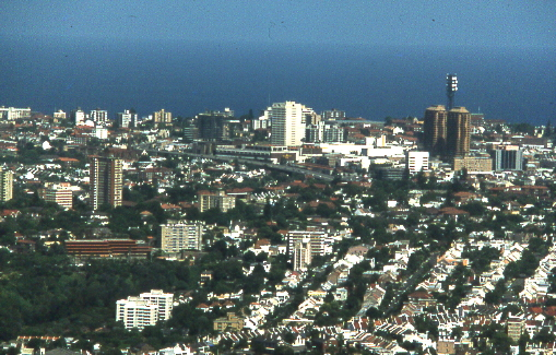 View of Bondi Junction, New South Wales from Centrepoint Tower, Sydney. Bondi junction, Sydney, photo by Sardaka 12:56, 22 July 2007 (UTC)